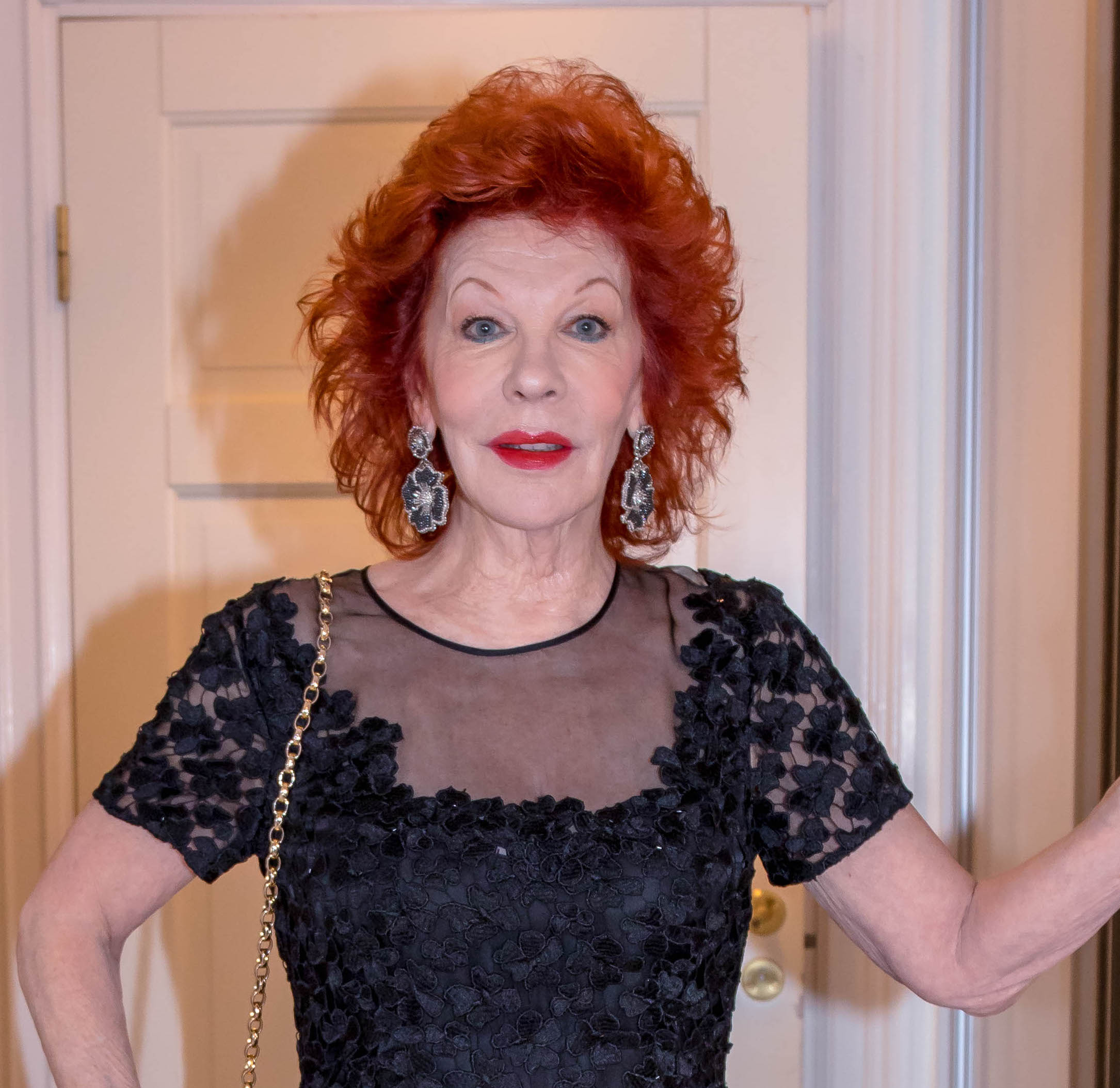 Swedish economist Barbro EhnbomPlace: Stockholm, Sweden